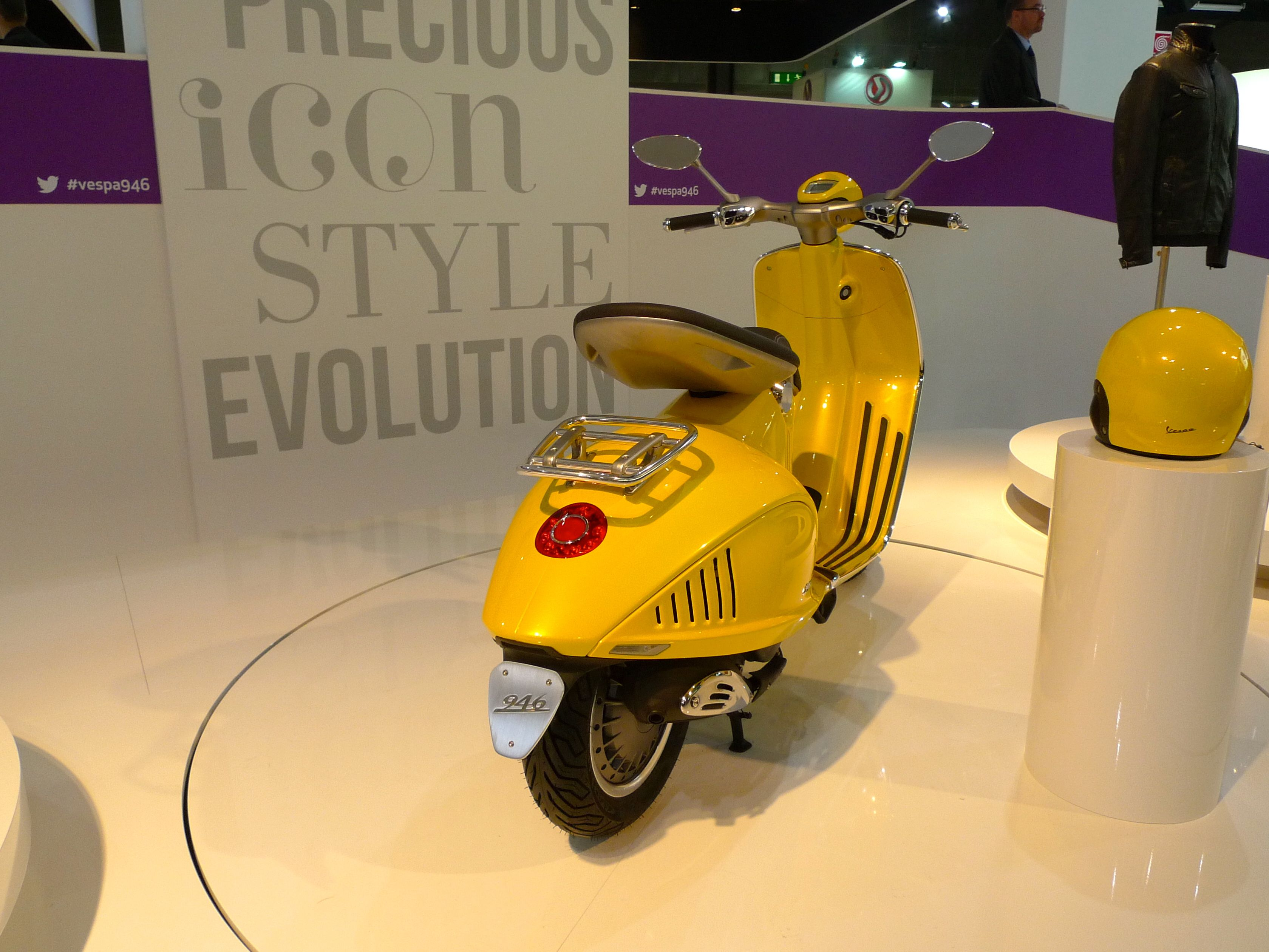 Vespa 946, back